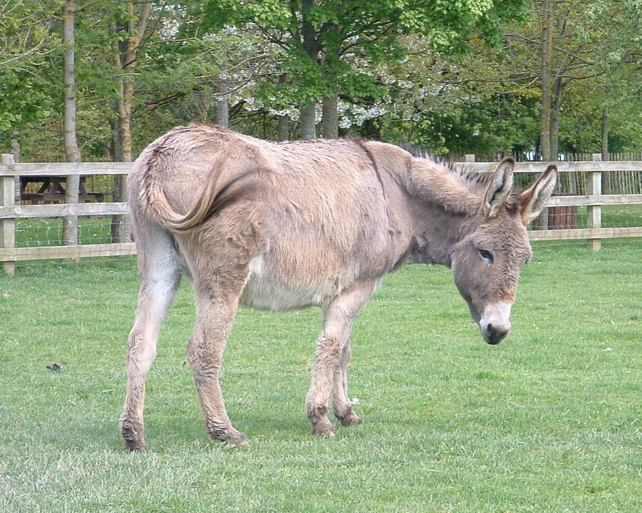 Cotentin donkey, Ferme de la Bintinais, Rennes, France